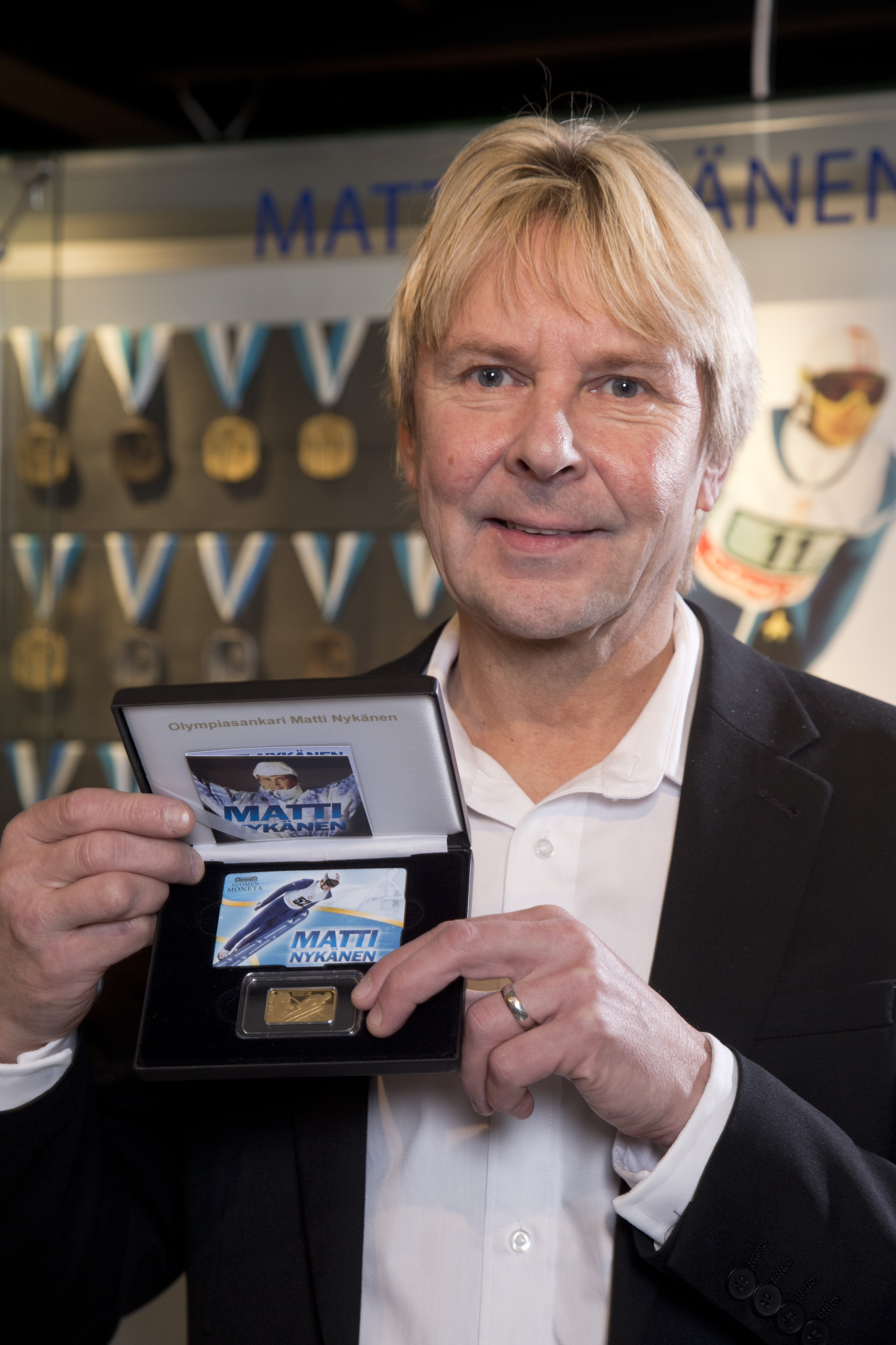 Finnish former ski jumper Matti Nykänen.